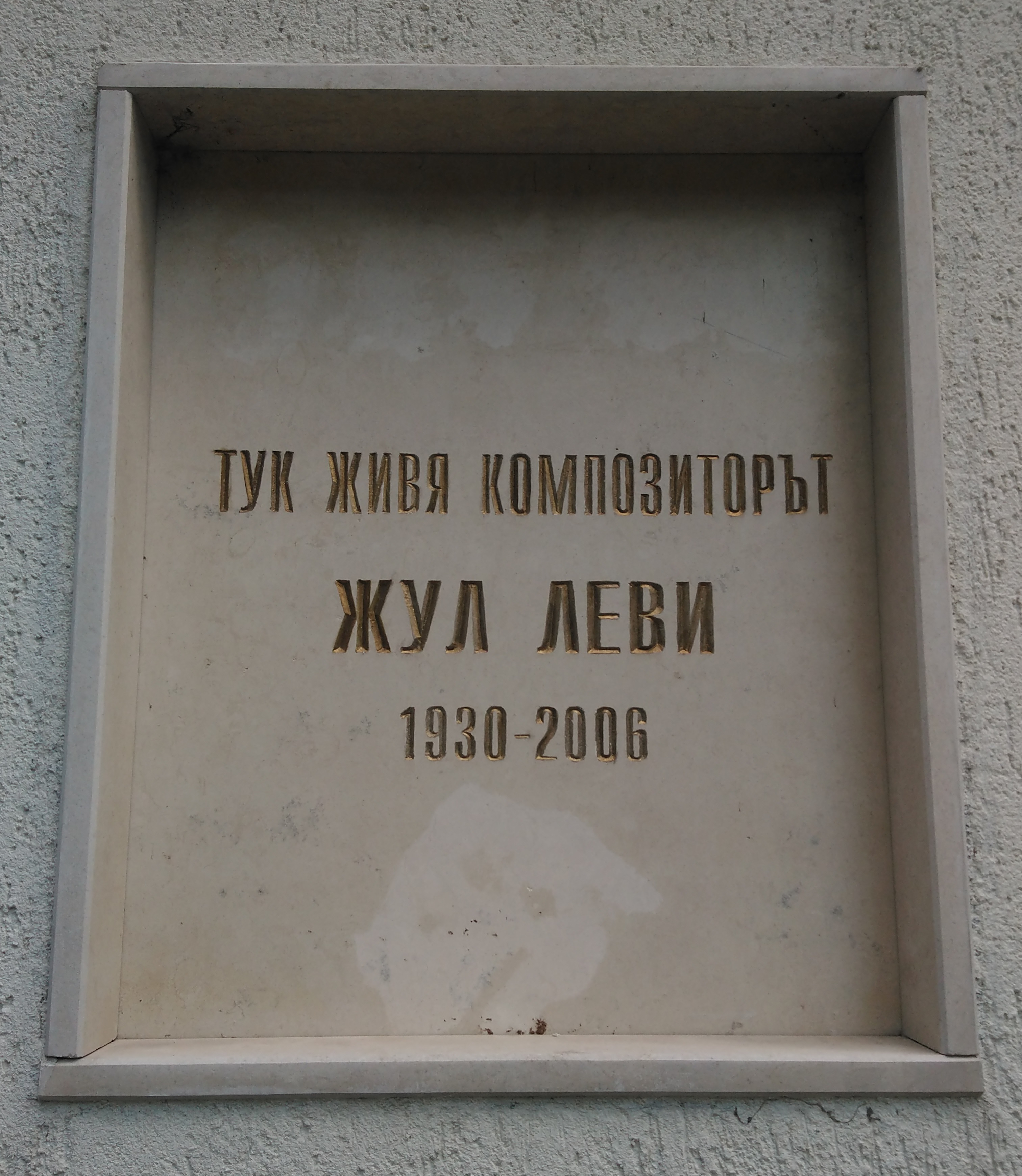 Memorial plaque of the Bulgarian composer Jules Levy